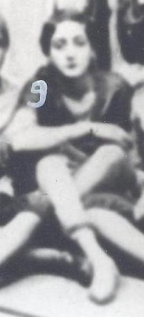 Lili Beron, 1934.